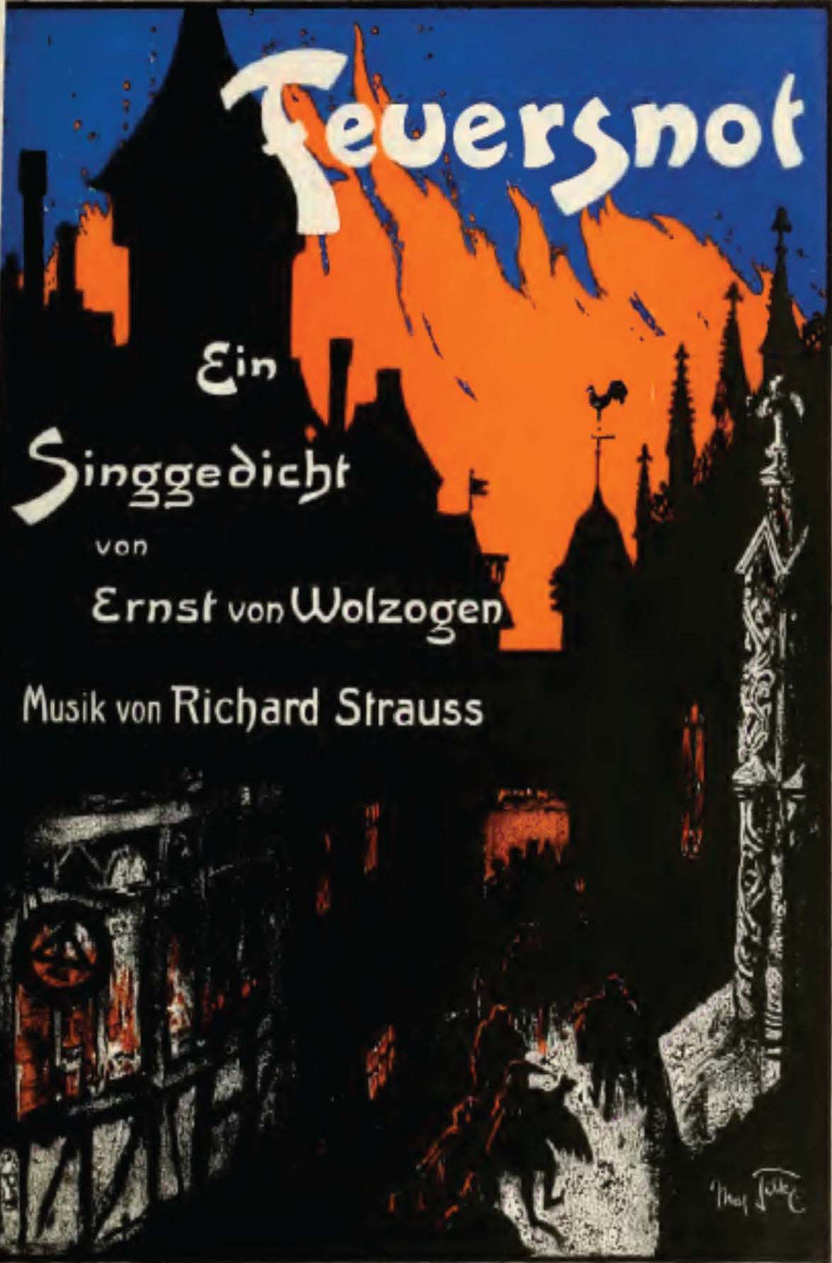 Front cover of piano score for Richard Strauss's 1901 opera Feuersnot